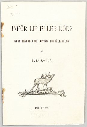 The cover of the pamphlet Infor lif eller död? Sanningsord i de Lappska förhållandena (Do we face life or death? Words of truth about the Lappish situation), published 1904 by Elsa Laula Renberg